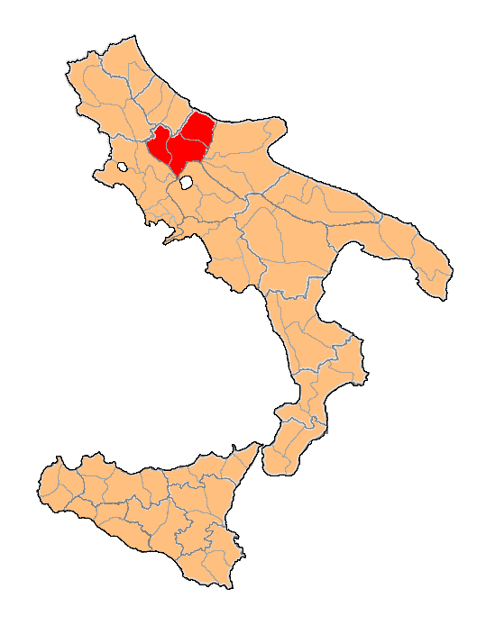 Map of Molise, of Kingdom of the Two Sicilies